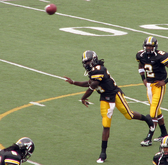 Appalachian State quarterback Armanti Edwards warming up before the game against the Dolphins of Jacksonville University.